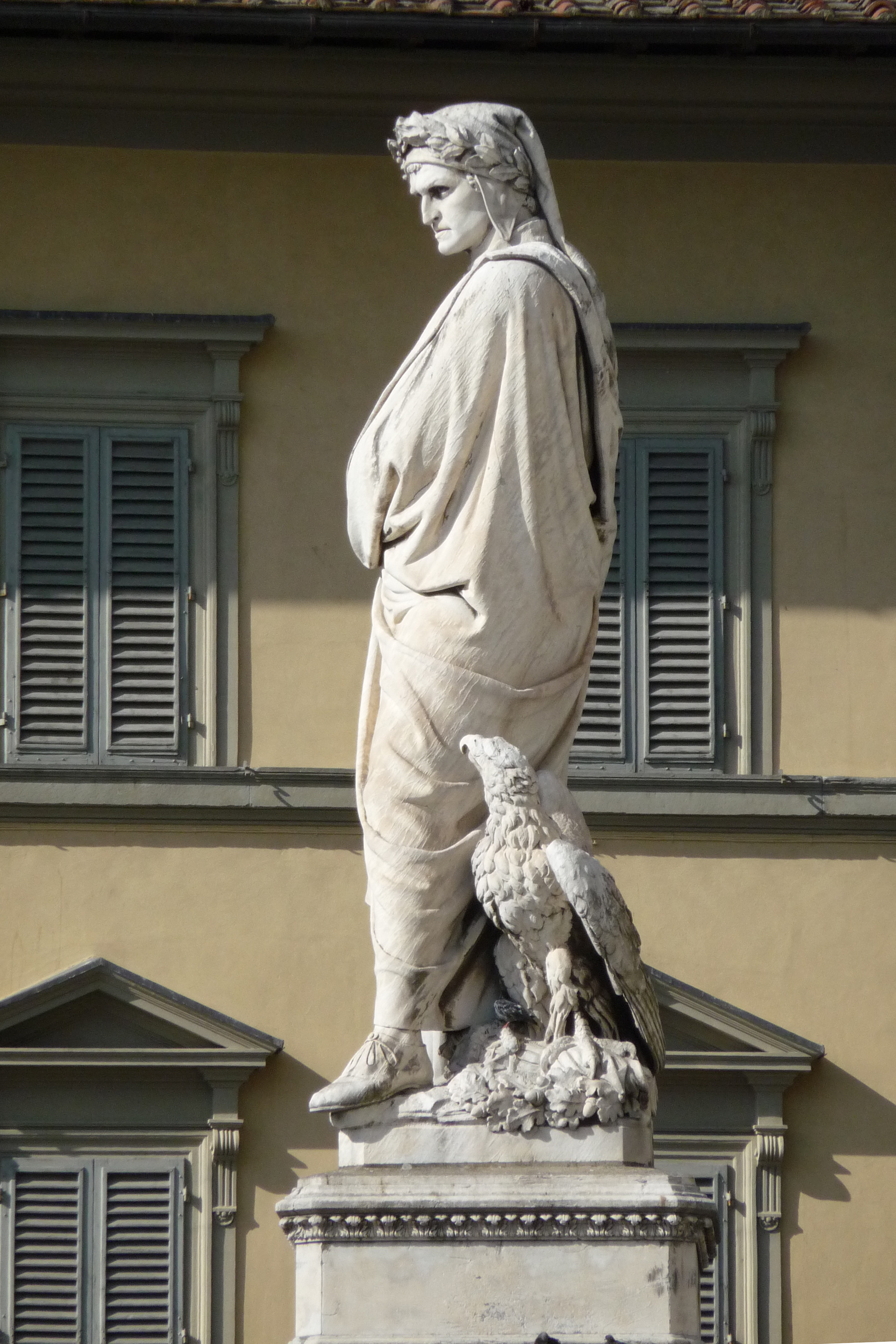 Dante Alighieri statue next to Santa Croce church, Florence (Italy), 1865, Enrico Pazzi